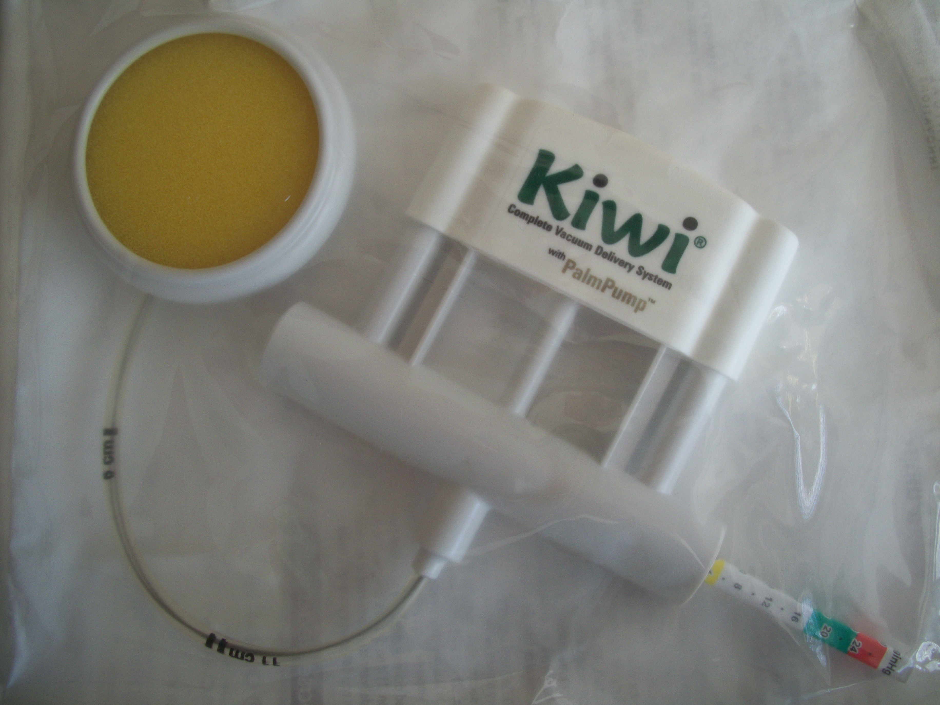 Kiwiglocke used for Ventouse